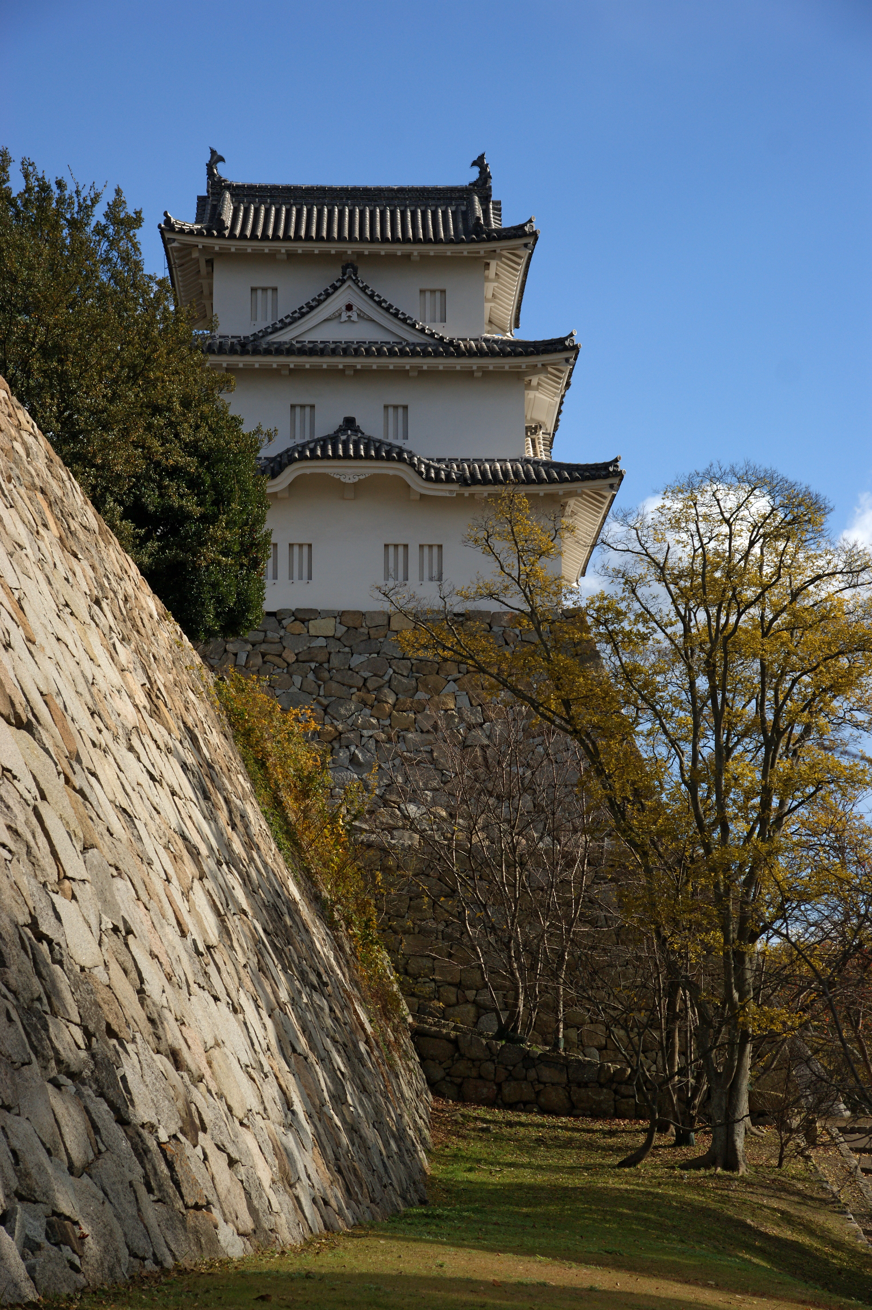 Akashi Castle (Akashi Park), Akashi, Hyogo prefecture, Japan